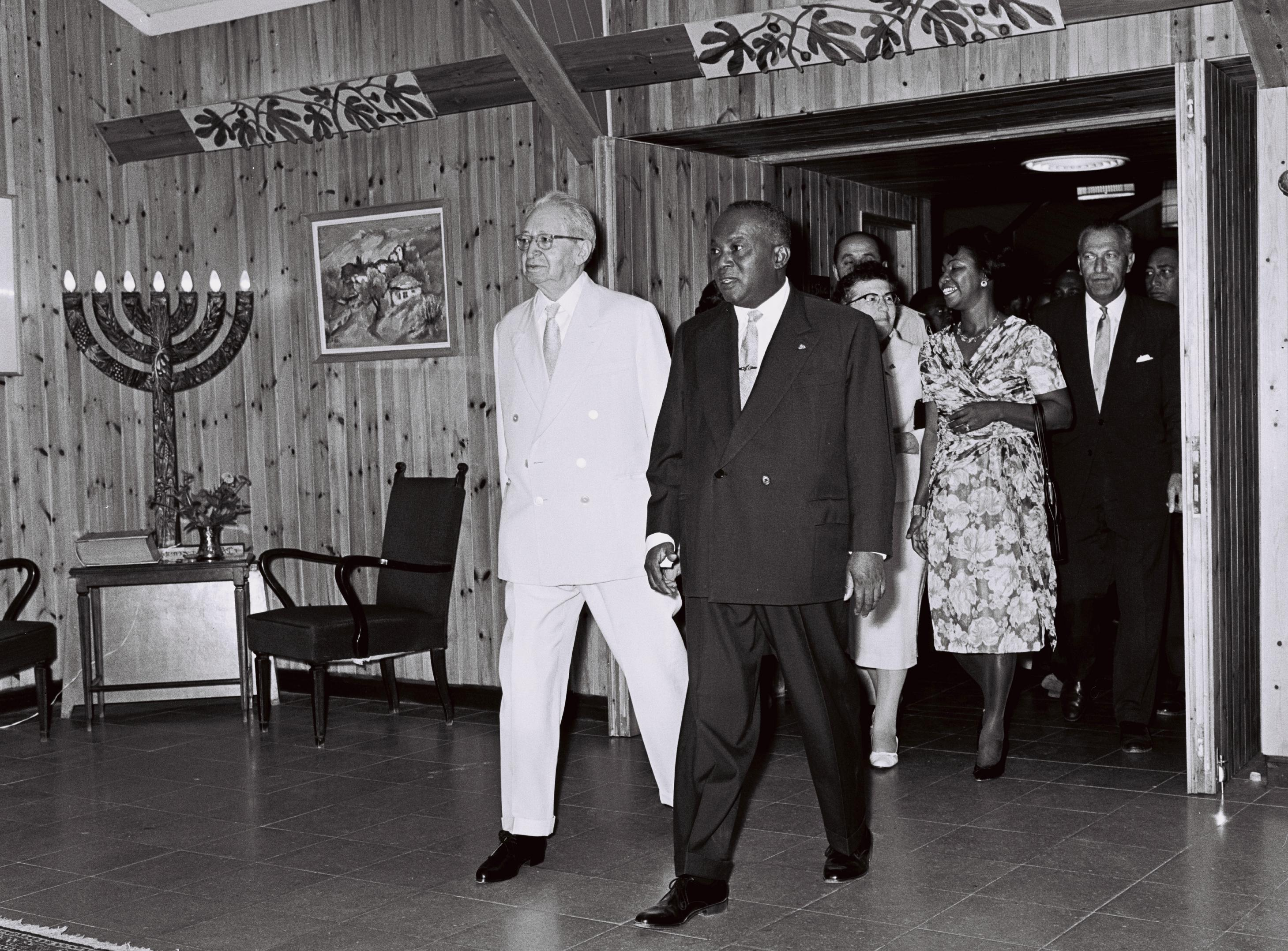 Visit of Malagassy president Tsiranana in Israel. in photo, president Ben Zvi and his wife welcoming the visitor at Beit HaNassi, Jerusalem.